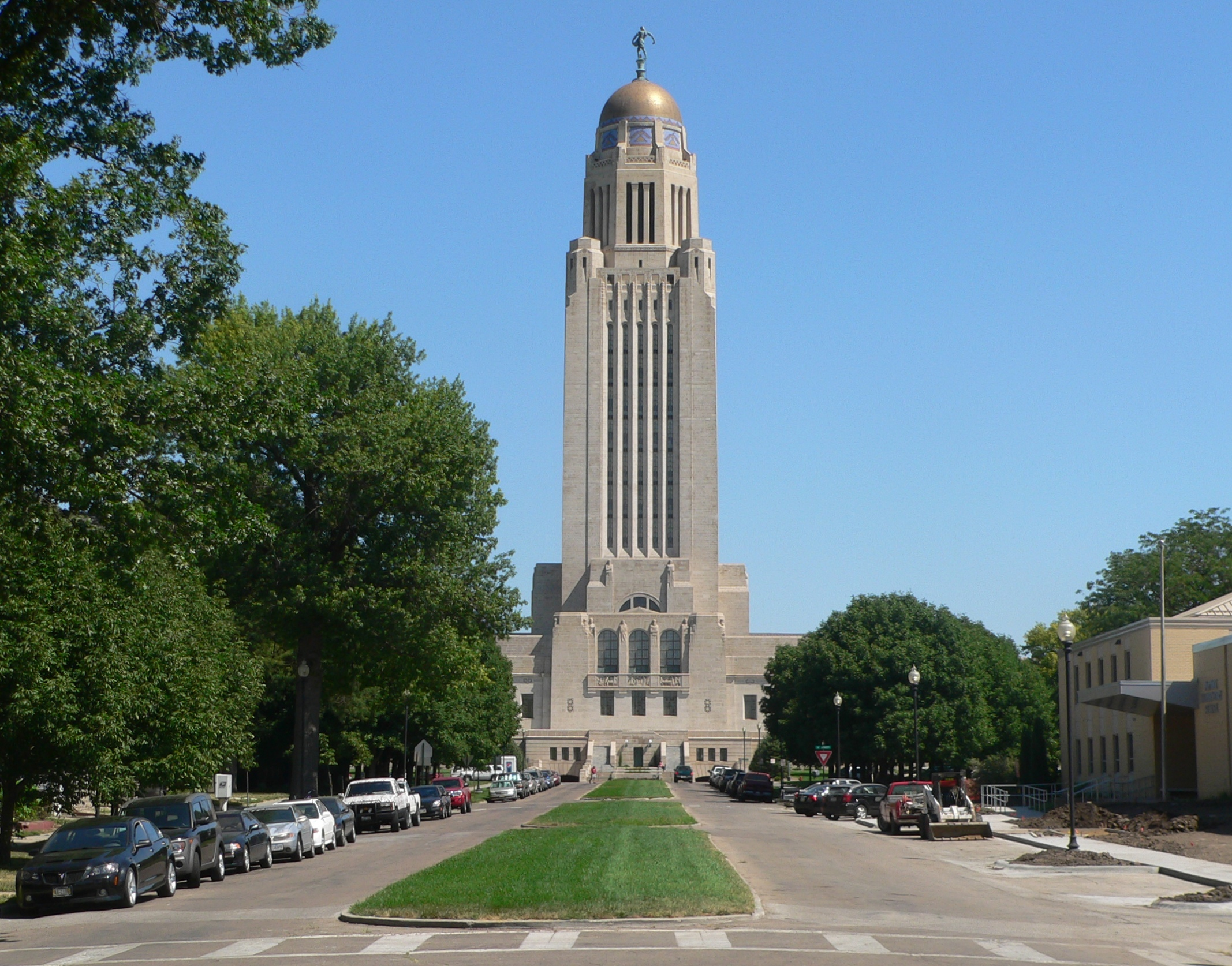 Nebraska State Capitol in Lincoln, Nebraska; seen from the south, looking north along Goodhue Boulevard from about F Street.